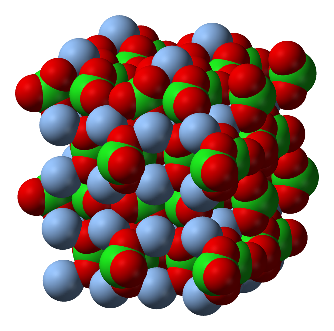 Space-filling model of part of the crystal structure of silver chlorate, AgClO3